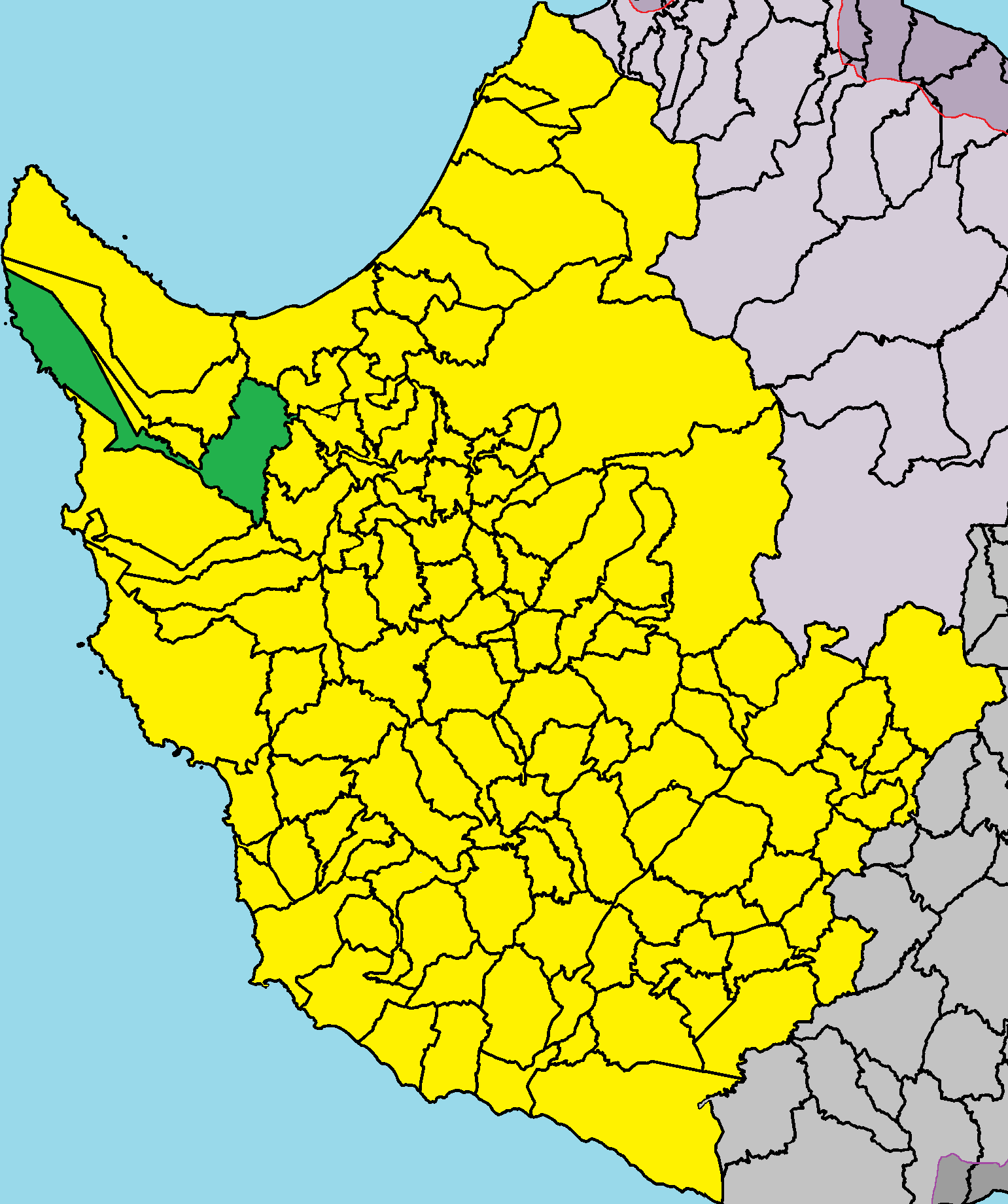 Dhrousha in Paphos District.